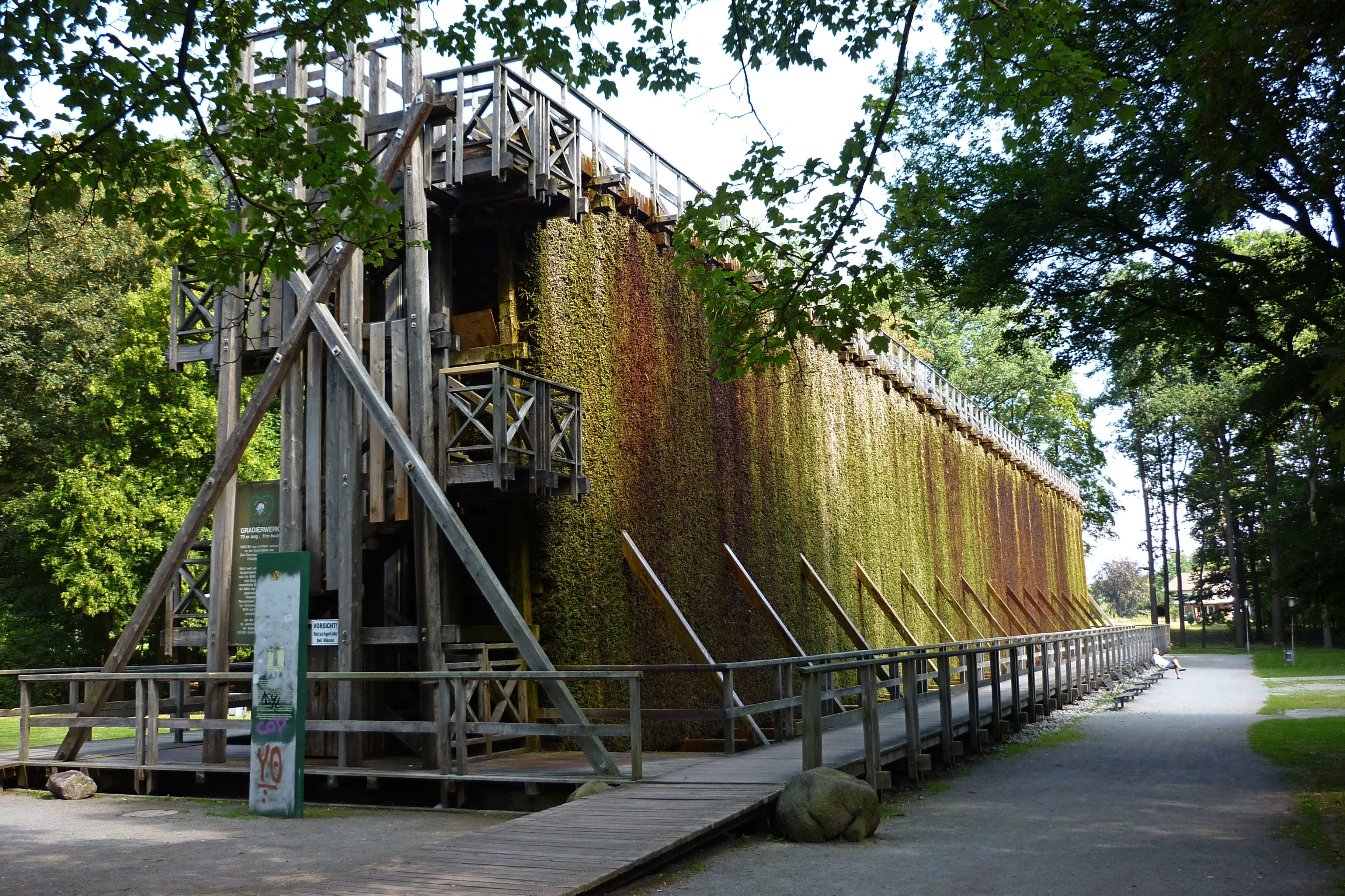 Bad Oeynhausen (Germany): Graduation tower in Sielpark